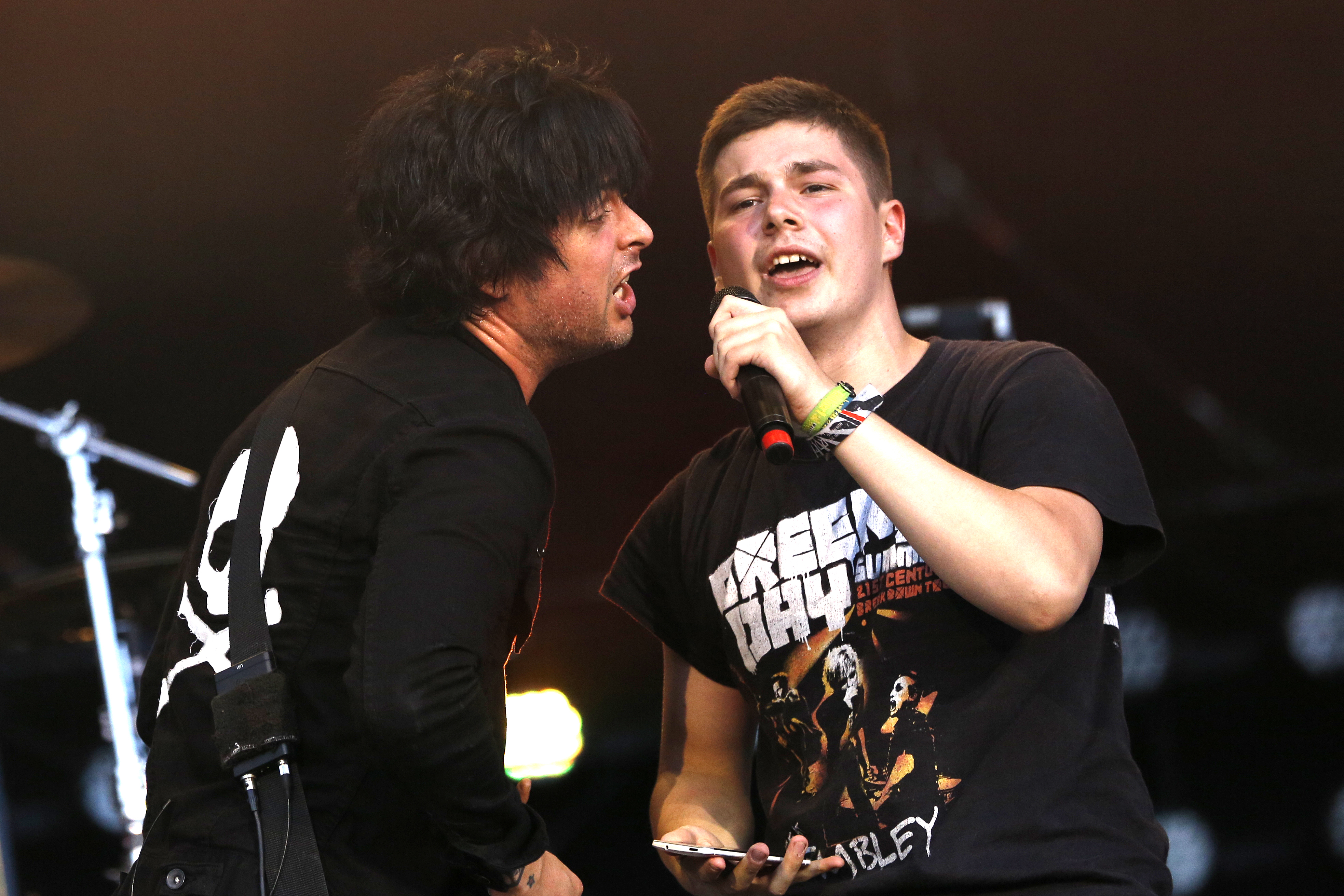 Billie Joe Armstrong, singer and guitarist of Green Day, stands on the Center Stage of Rock im Park-Festival 2013.